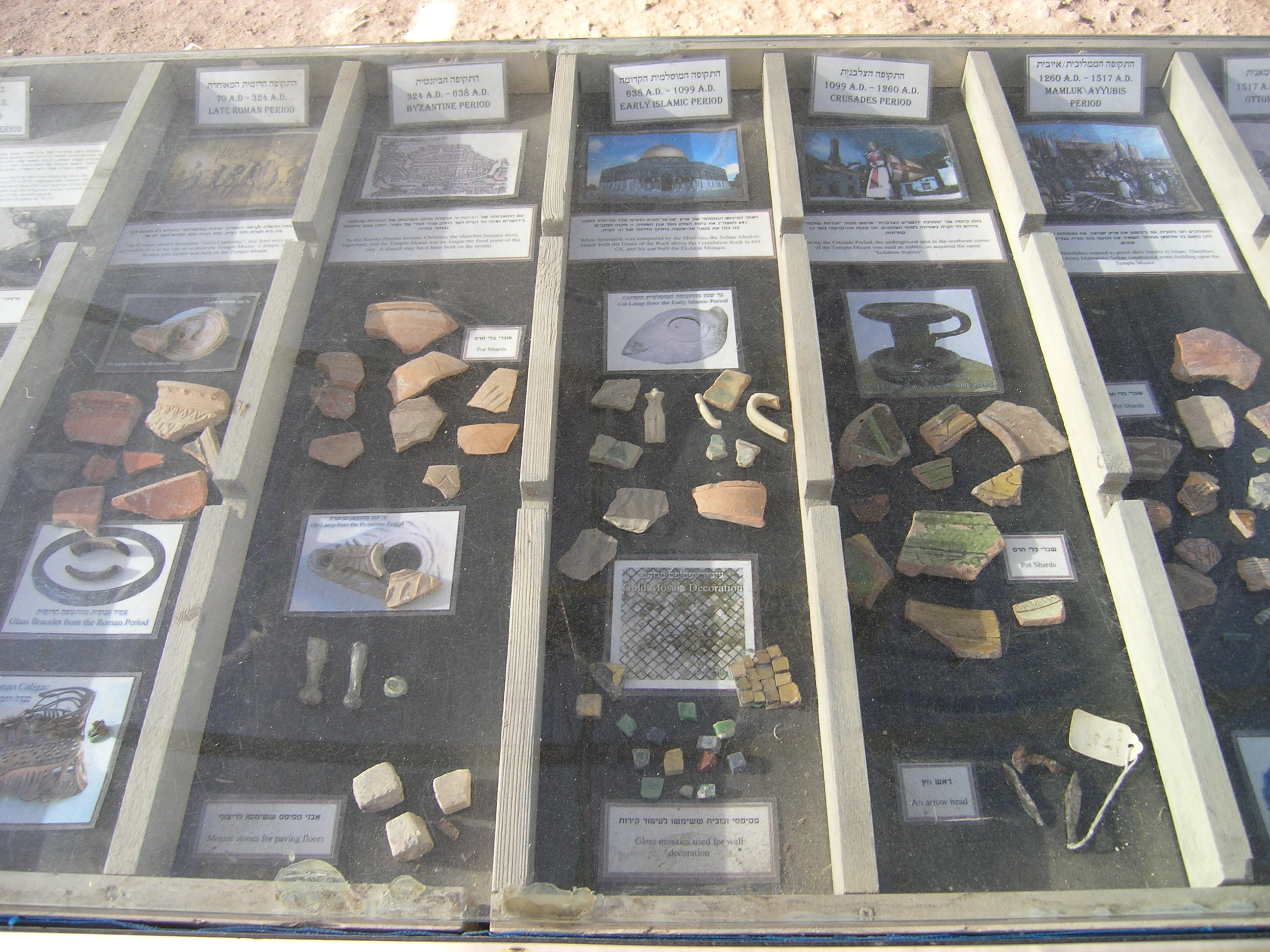 Temple Mount Sifting Project, Jerusalem, 2016, Display Table